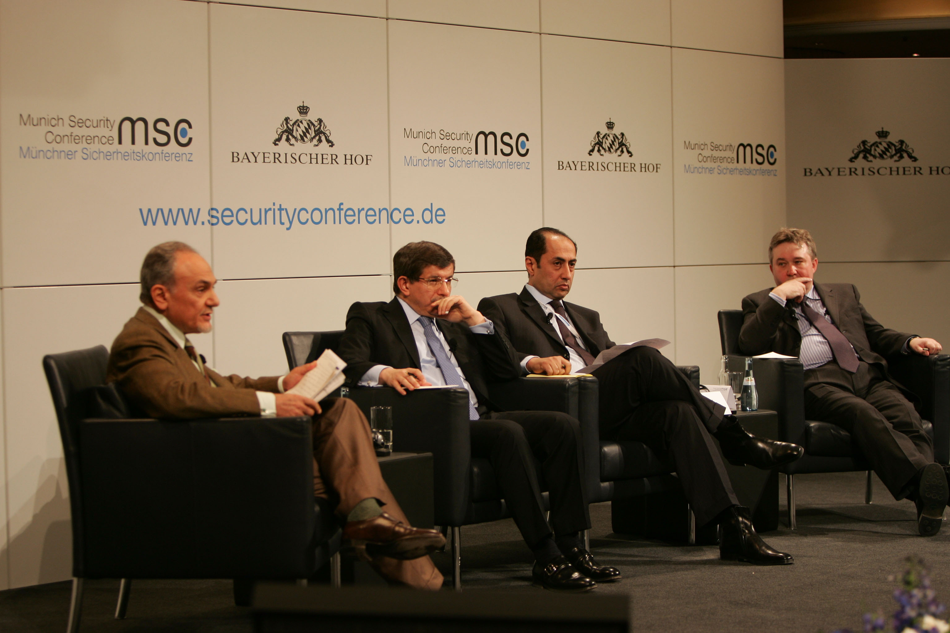 46th Munich Security Conference 2010: From left: Prinz Turki Al Faisal bin Abdulaziz Al Saud, Chairman, King Faisal Center, and Prof. Dr. Ahmet Davutoglu, Minister of Foreign Affairs, Republic of Turkey, Hossam Zaki, Senior Advisor to the Foreign Minister, Cairo, and Philip Stephens, Financial Times.